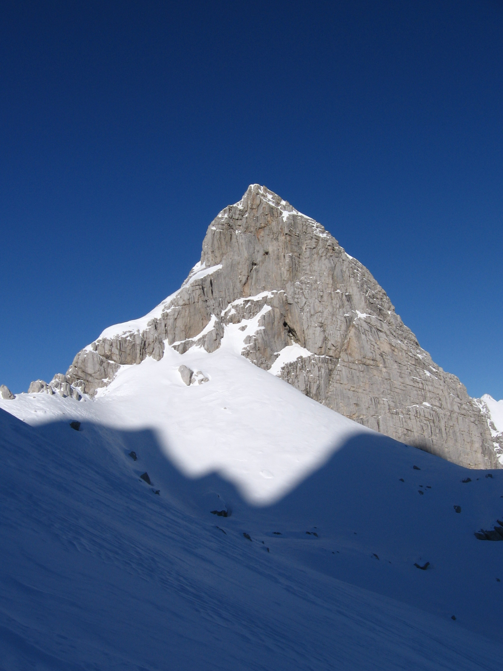 South wall of Mt. Kotova špica (2.576 m), above Kotovo sedlo, Julian Alps, Slovenia.